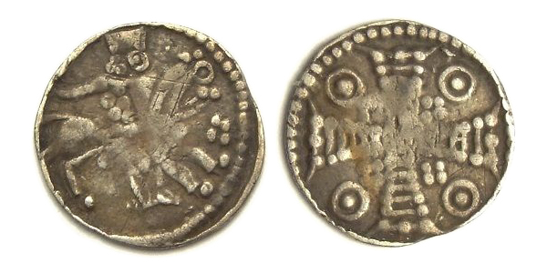 Duchy of Brabant, denier 'au cavalier' of Henry I, Duke of Brabant (1190-1235), struck in Brussels after 1210. Obverse: Duke with sword galloping to right; DV-X in field. Reverse: 'Windmill sail' cross of Brabant; pellets and circles in each quarter.